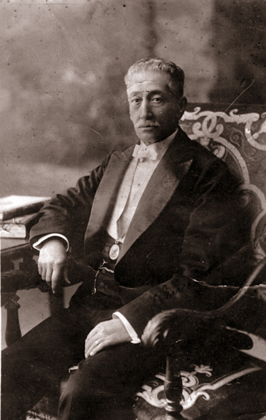 Enrique Guzmán y Valle (* Lima, 1854 - † idem, 1923)